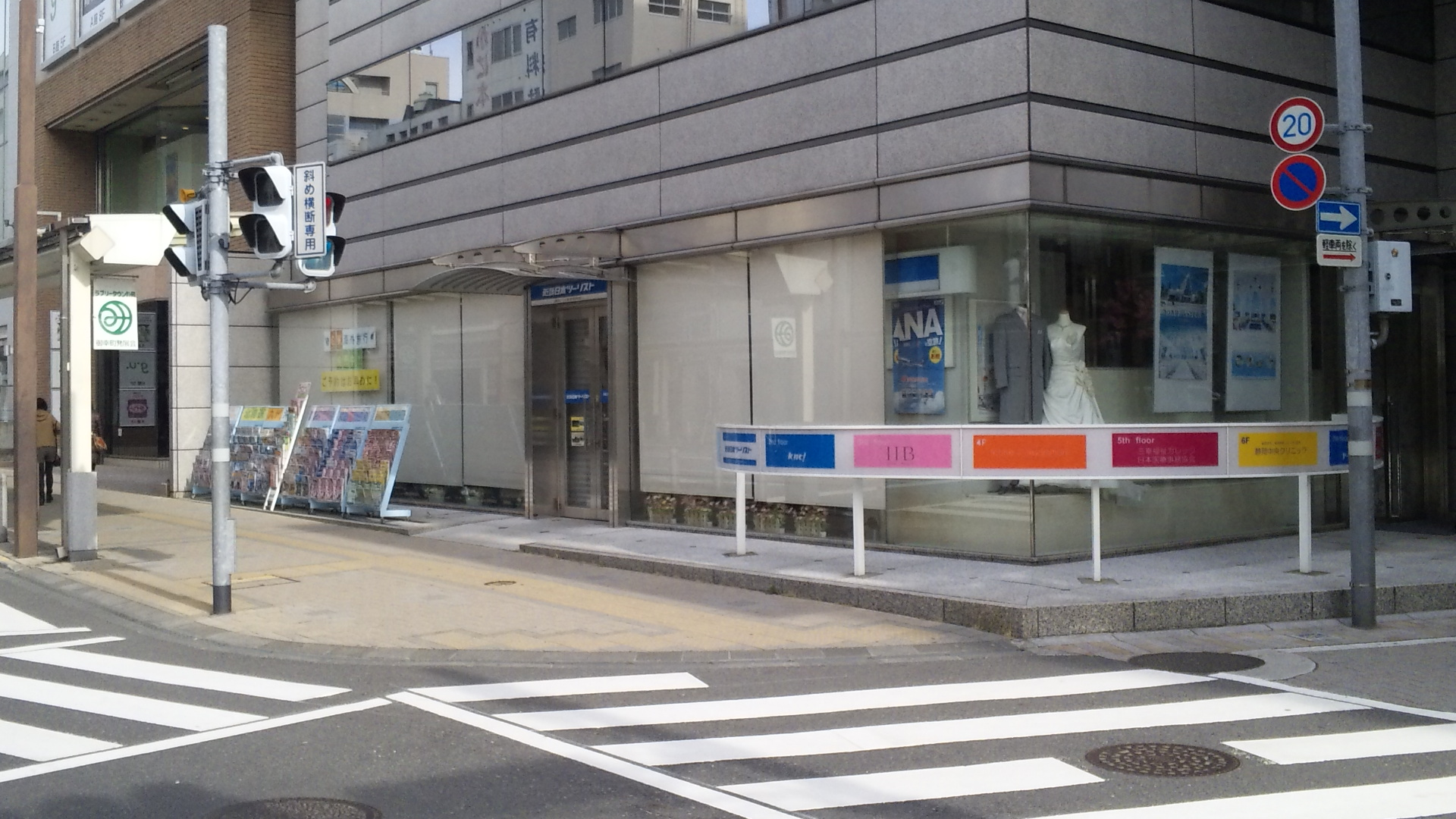 Kintetsu International （Kinki Nippon Tourist Individual Tour Sales CO.,LTD.）,Shizuoka